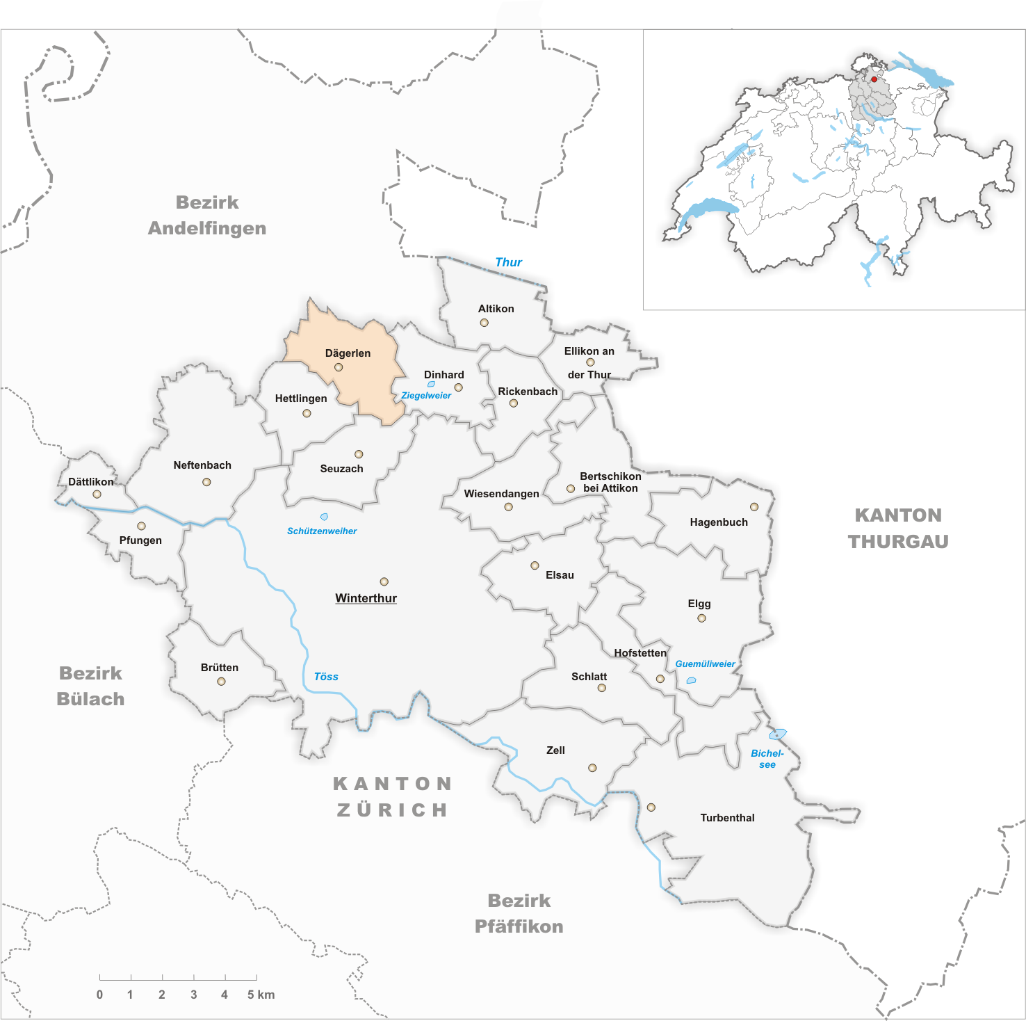 Municipality Dägerlen